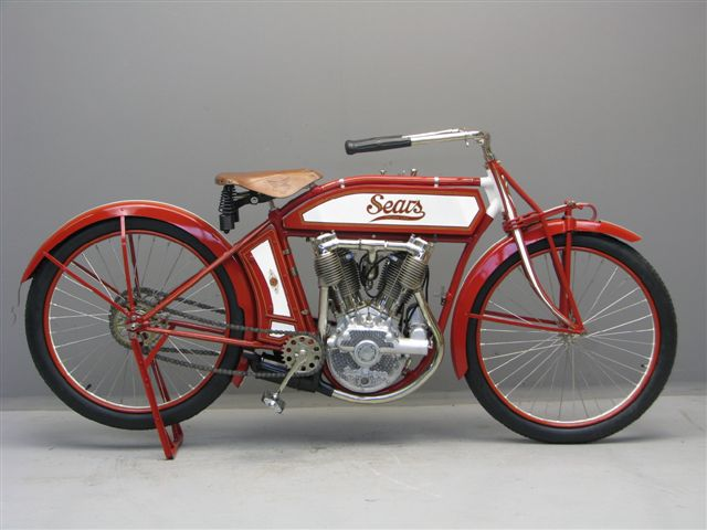 Sears Dreadnaught 9 hp 1157 cc V-Twin motorcycle from 1913